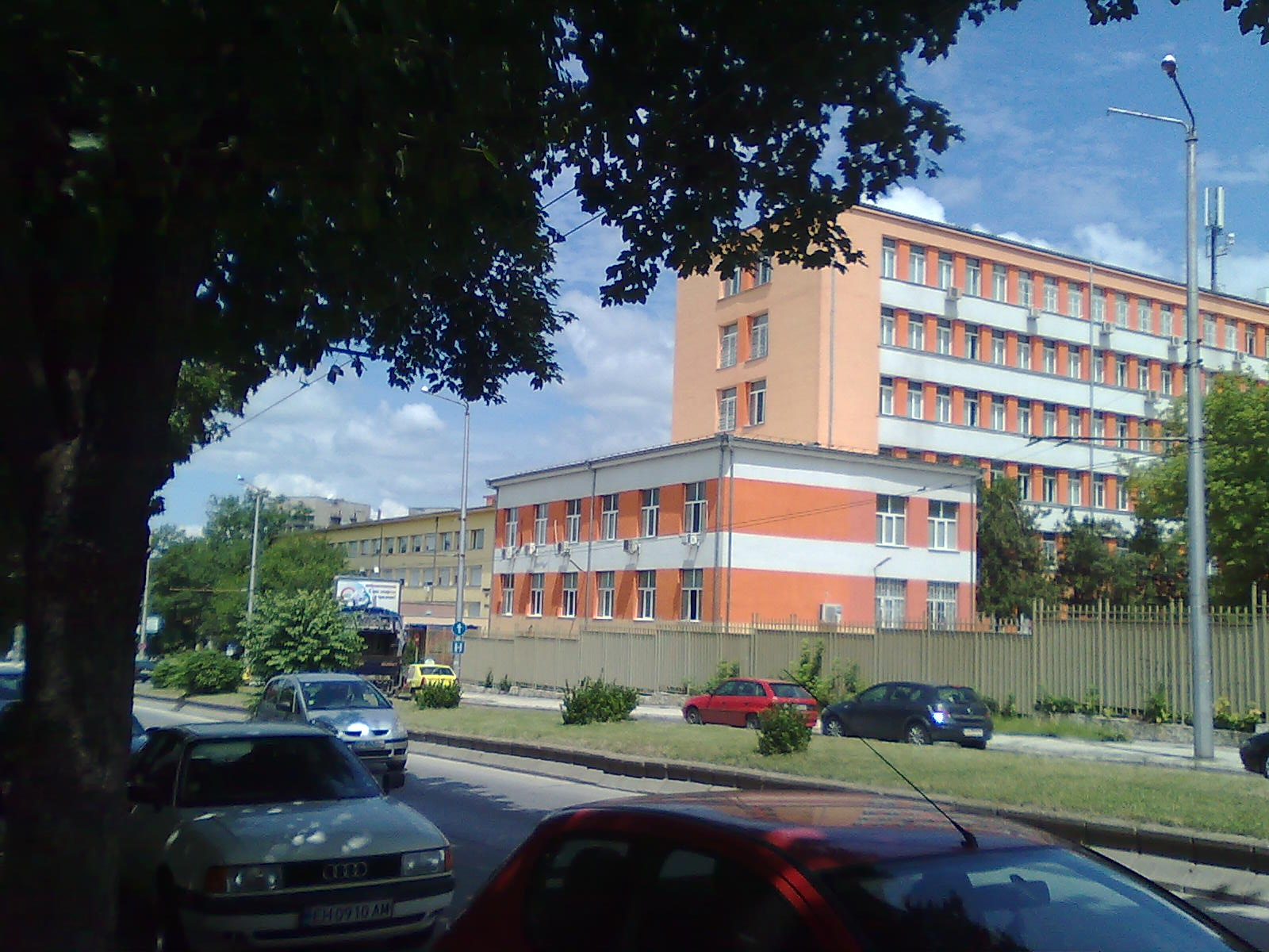 Back view from hospital in Pleven